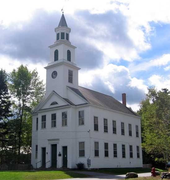 The Meeting House Congregational Church on South Road in Marlboro, Vermont, not to be confused with the Town (Meeting) House nearby.